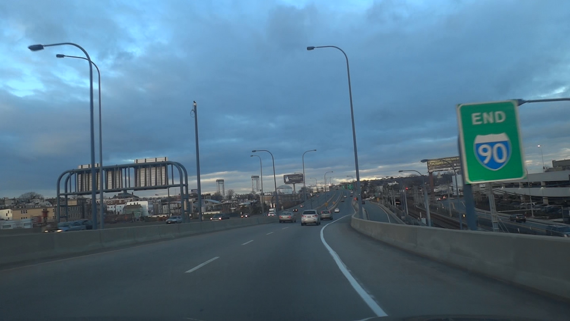 This is the eastern terminus of Interstate 90 in Boston, Mass.